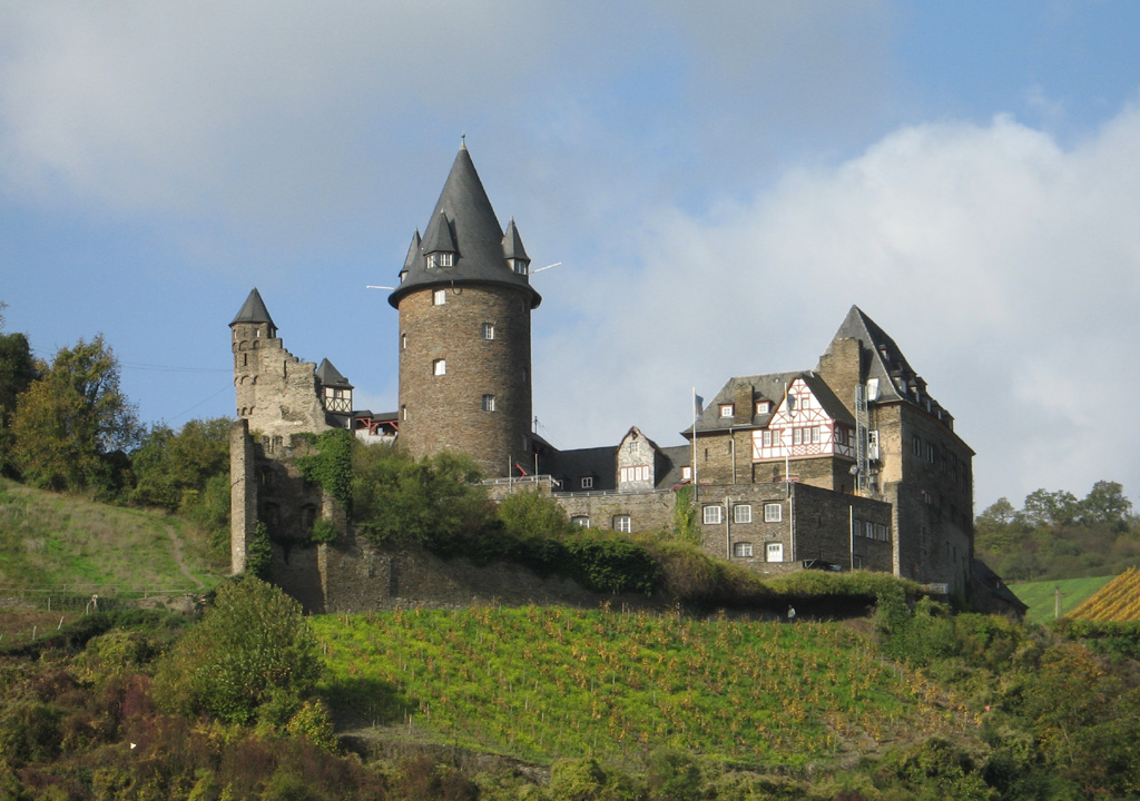 Castle Stahleck above Bacharach on the Middle-Rhine